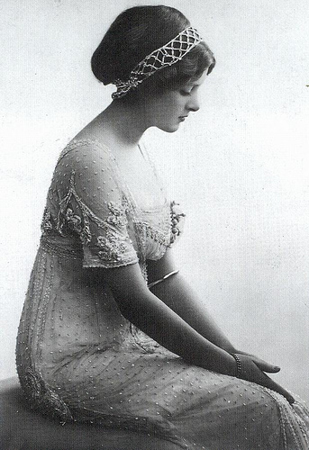 The actress Gladys Cooper, later to be the star of stage and screen in The Second Mrs Tanquery and My Fair Lady, wears a high-waisted Empire line evening dress in the new fluid, classical style. Scanned and quoted from the book "Decades of Fashion" by Harriet Worsley.